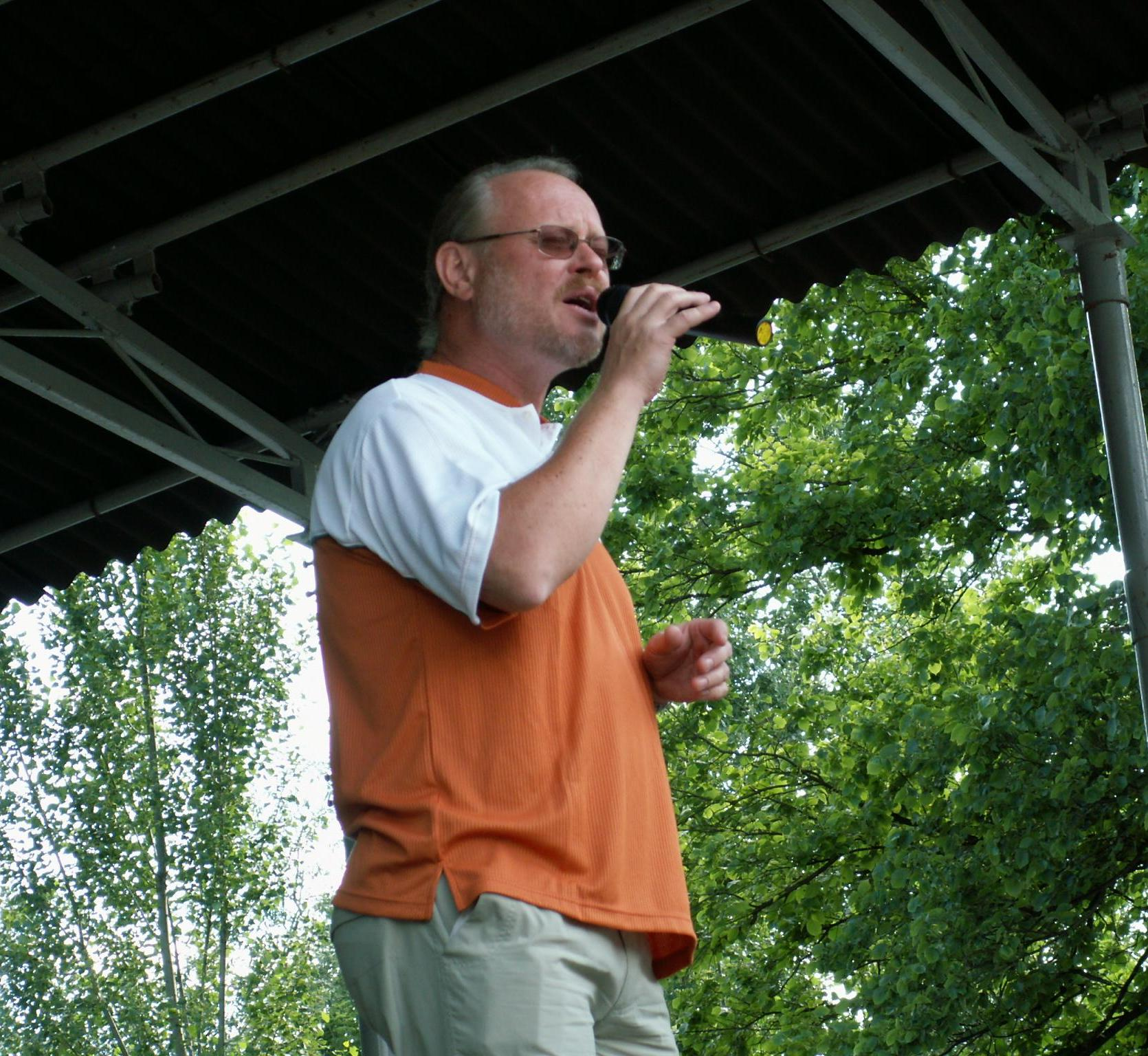 Vaso Patejdl